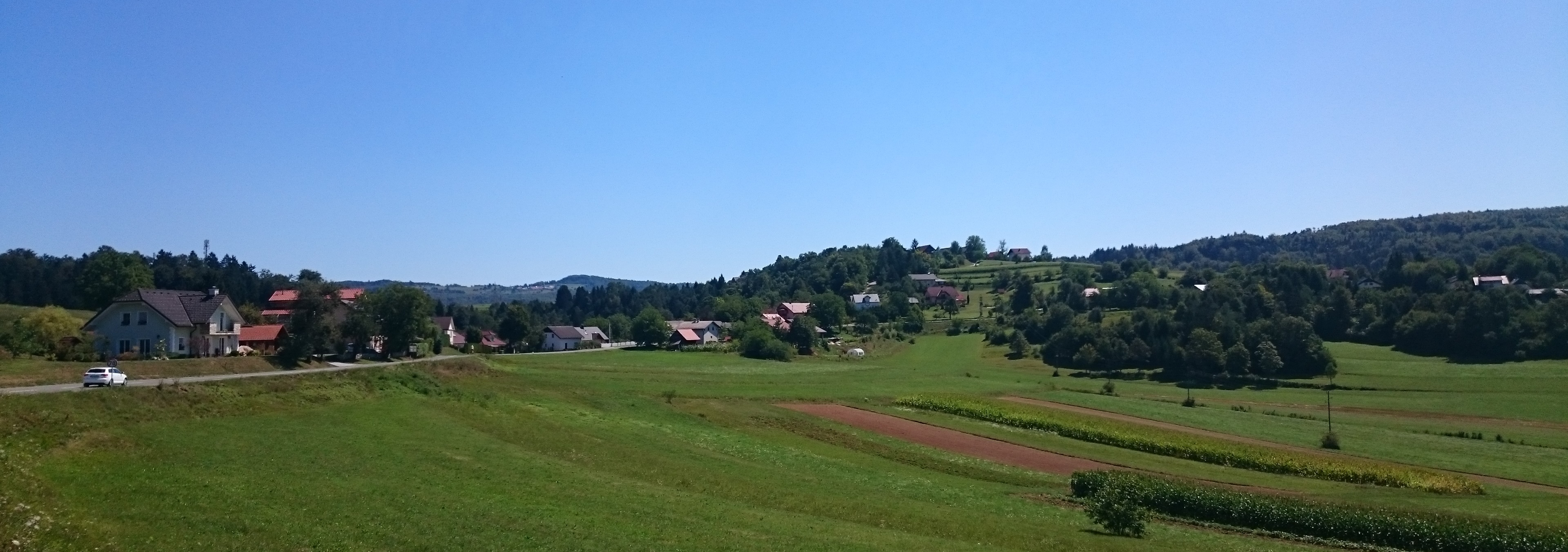 Lobček, Slovenia